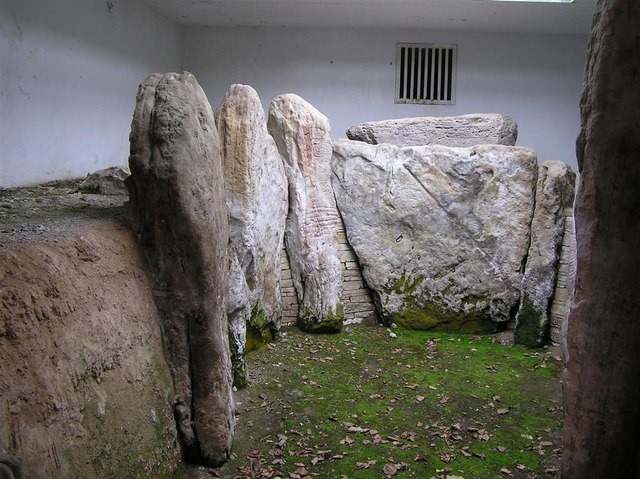 Queen Anya's Tomb The inside view of the brurial chamber - Knockmany (Irish - Croc-mBaine) or Anya's cove may mean the Hill of Baine, or possibly the hill of the Monks.